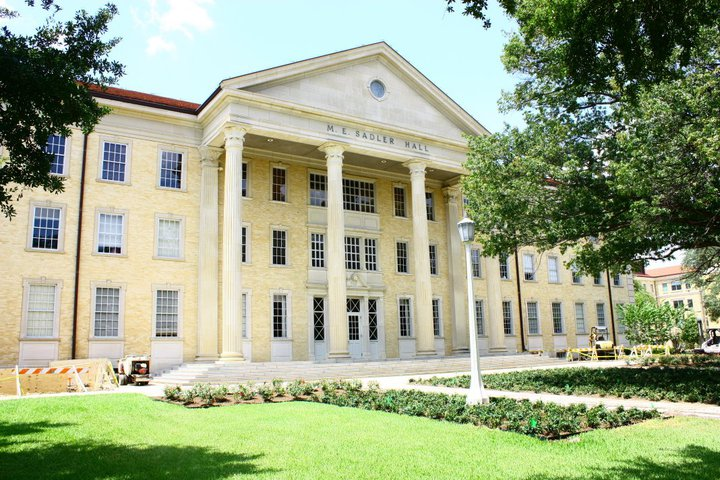 Summer at TCU